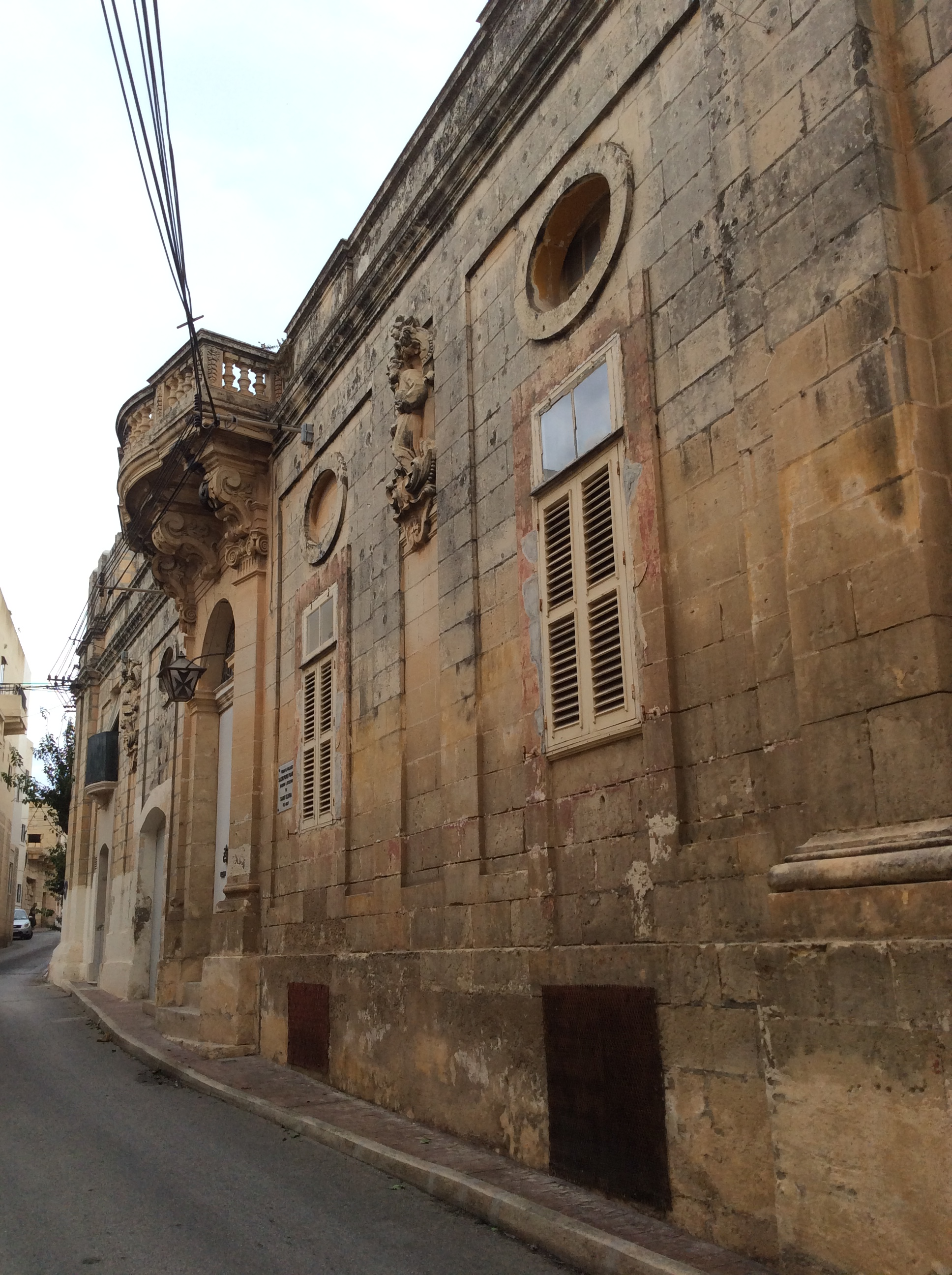 The palace got its name as 'Palazz Santa Liena' after the titular statue of the St Helen Parish Church in Birkirkara was created there. The façade has a late Baroque architecture consisting of the Relief of St Francis of Assisi the Relief of St Mark, now both reliefs listed as national monuments. This media is about Maltese cultural property with inventory number 00275. This media is about Maltese cultural property with inventory number 00276.